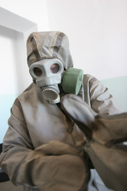 A Mongolian soldier finishes putting on his soviet-style gas mask and chemical suit.